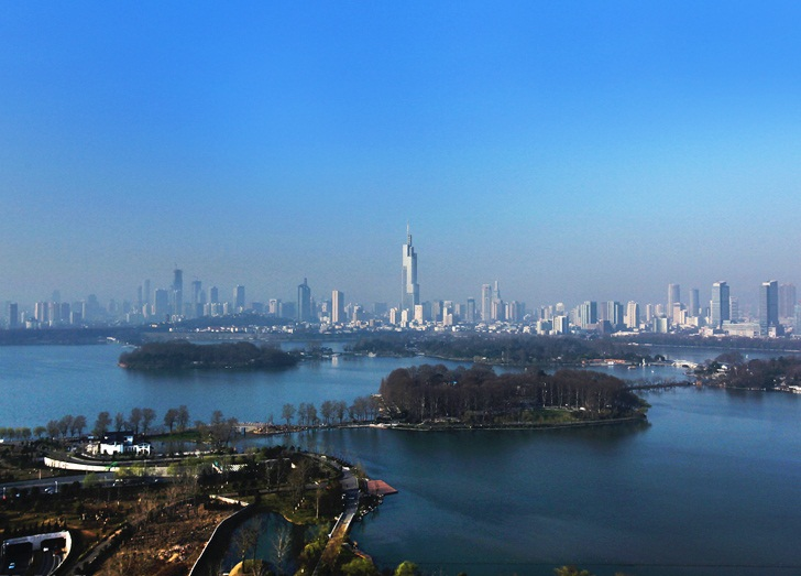 Nanjing panorama view form Hongshan hill, taken in Mar 2012.